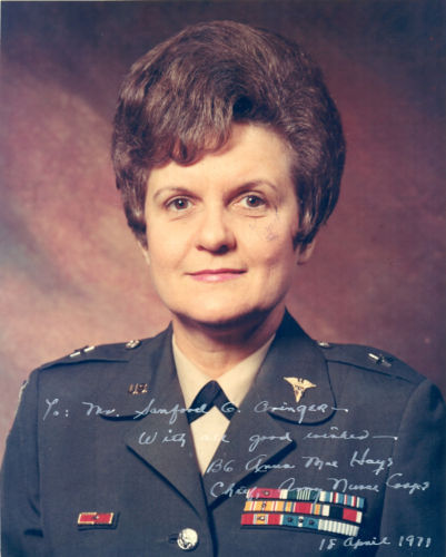 BGEN Anna Mae Hays, US Army